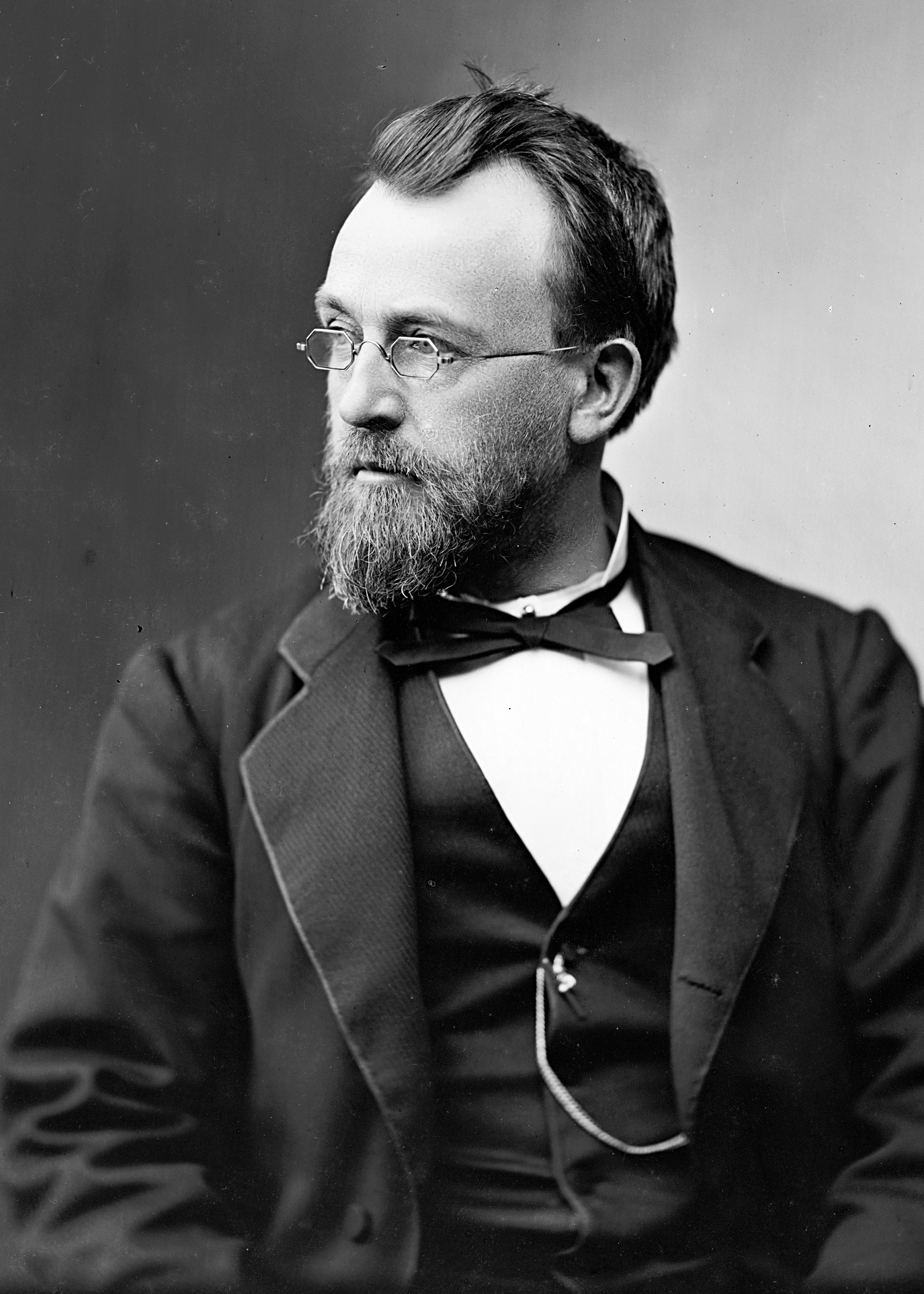 William Ward, US Representative from Pennsylvania